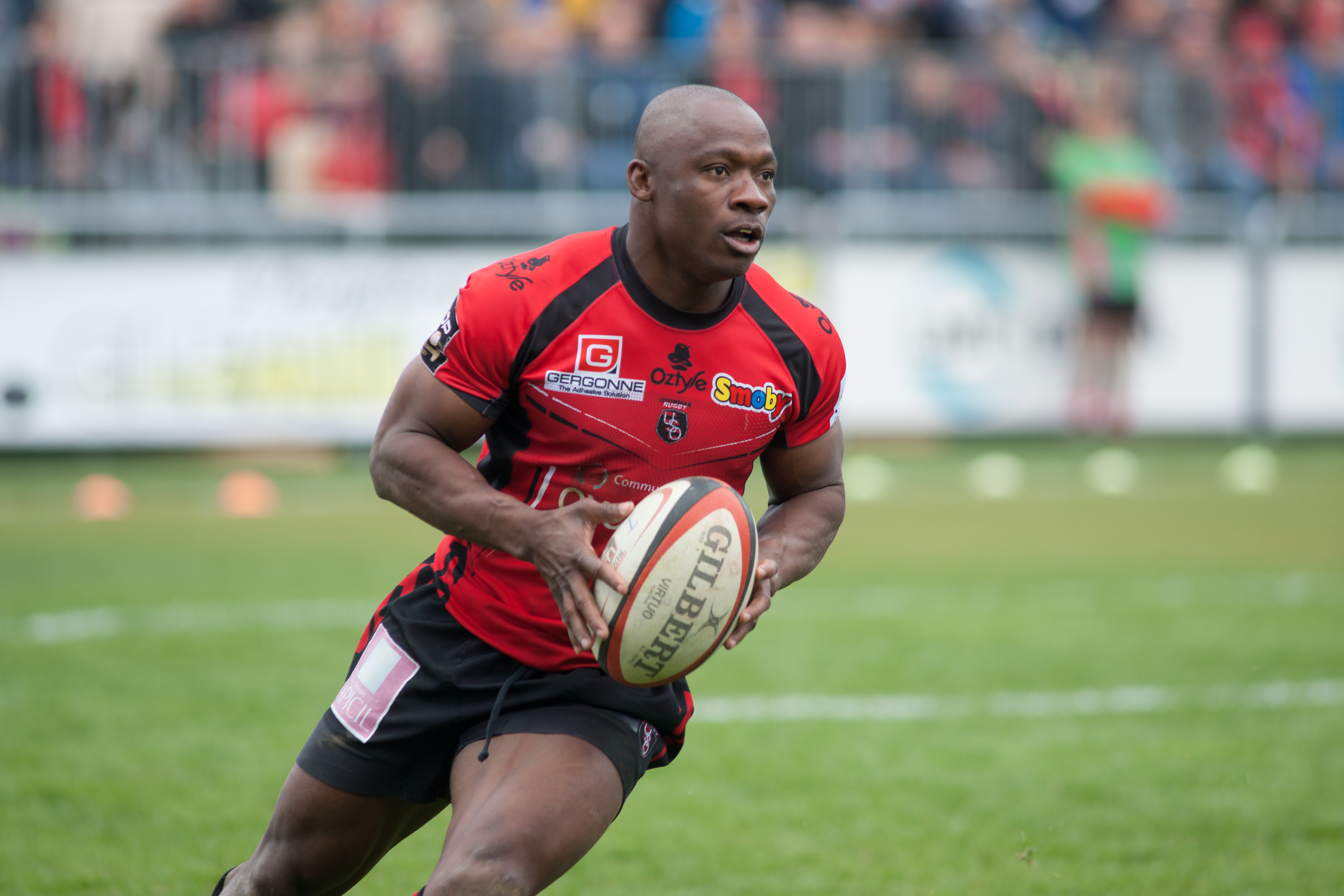 The making of this document was supported by Wikimedia CH. (Submit your project!) For all the files concerned, please see the category Supported by Wikimedia CH. US Oyonnax vs. Stade Toulousain, 19th April 2014